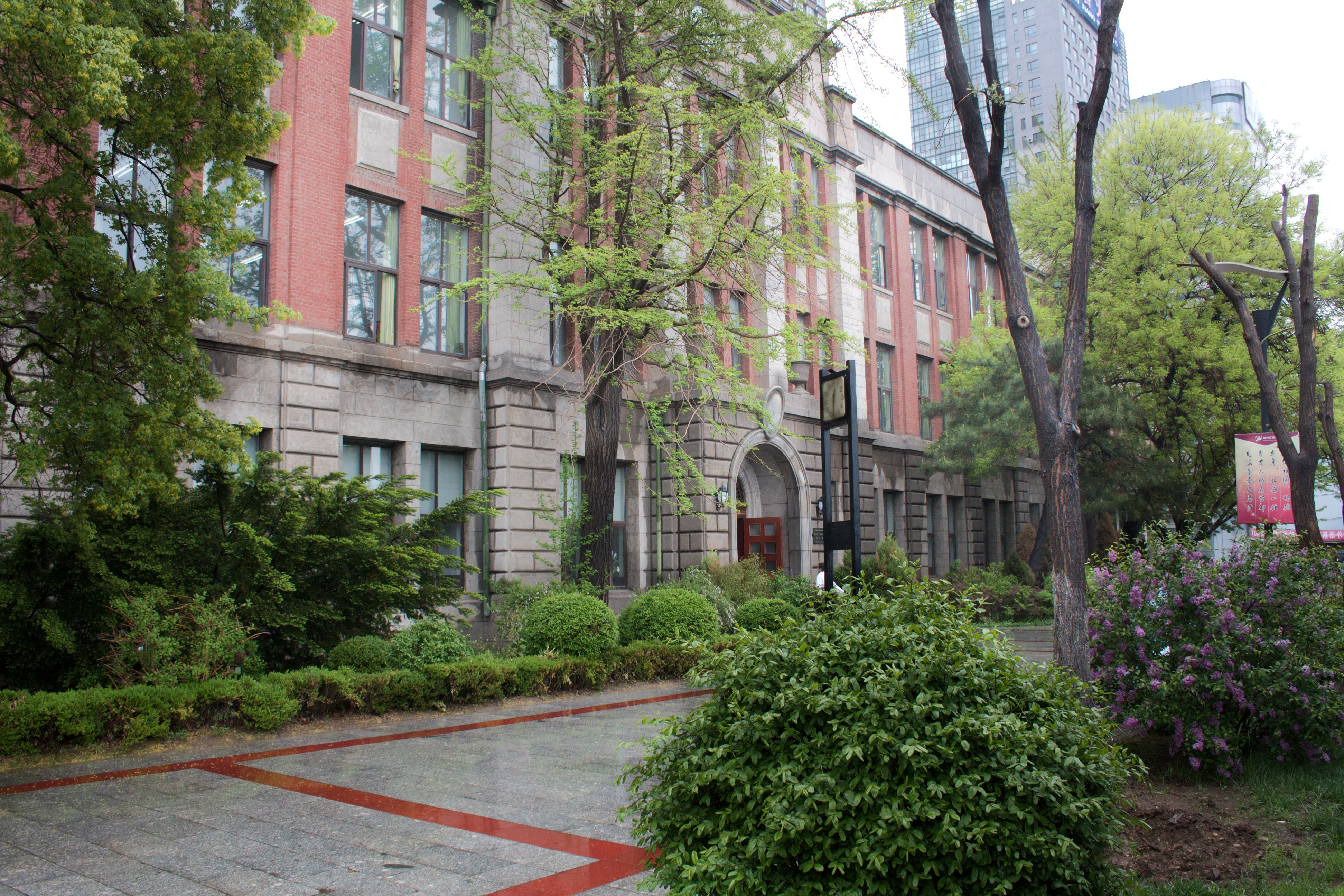 Taked in 2010.